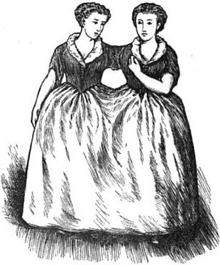 19th-century depiction of the Biddenden Maids from The Gentleman's Magazine